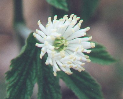 Hydrastis canadensis flower